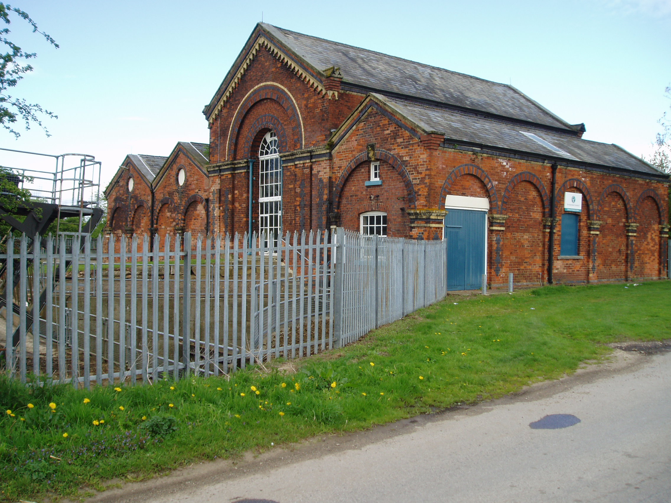 The pumping station at Dirtness, which drains the northern edge of Hatfield Chase